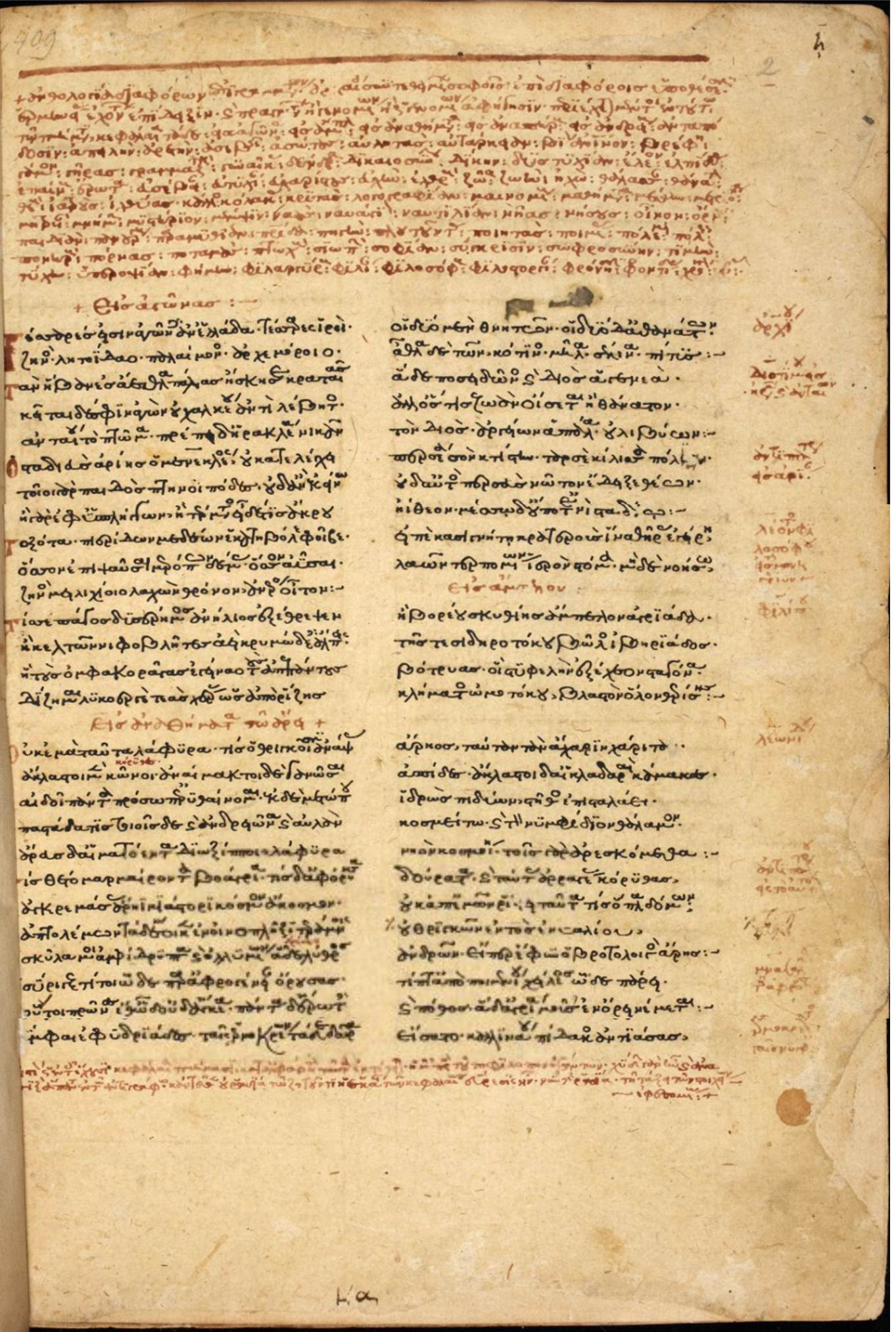 Anthology of Planudes, Anthologia diaforon epigrammaton - Anthology of various epigrams - Anthologia Graeca, Maximus Planudes, page 1, British Library manuscript (BM Add. 16409), approx 1300 AD